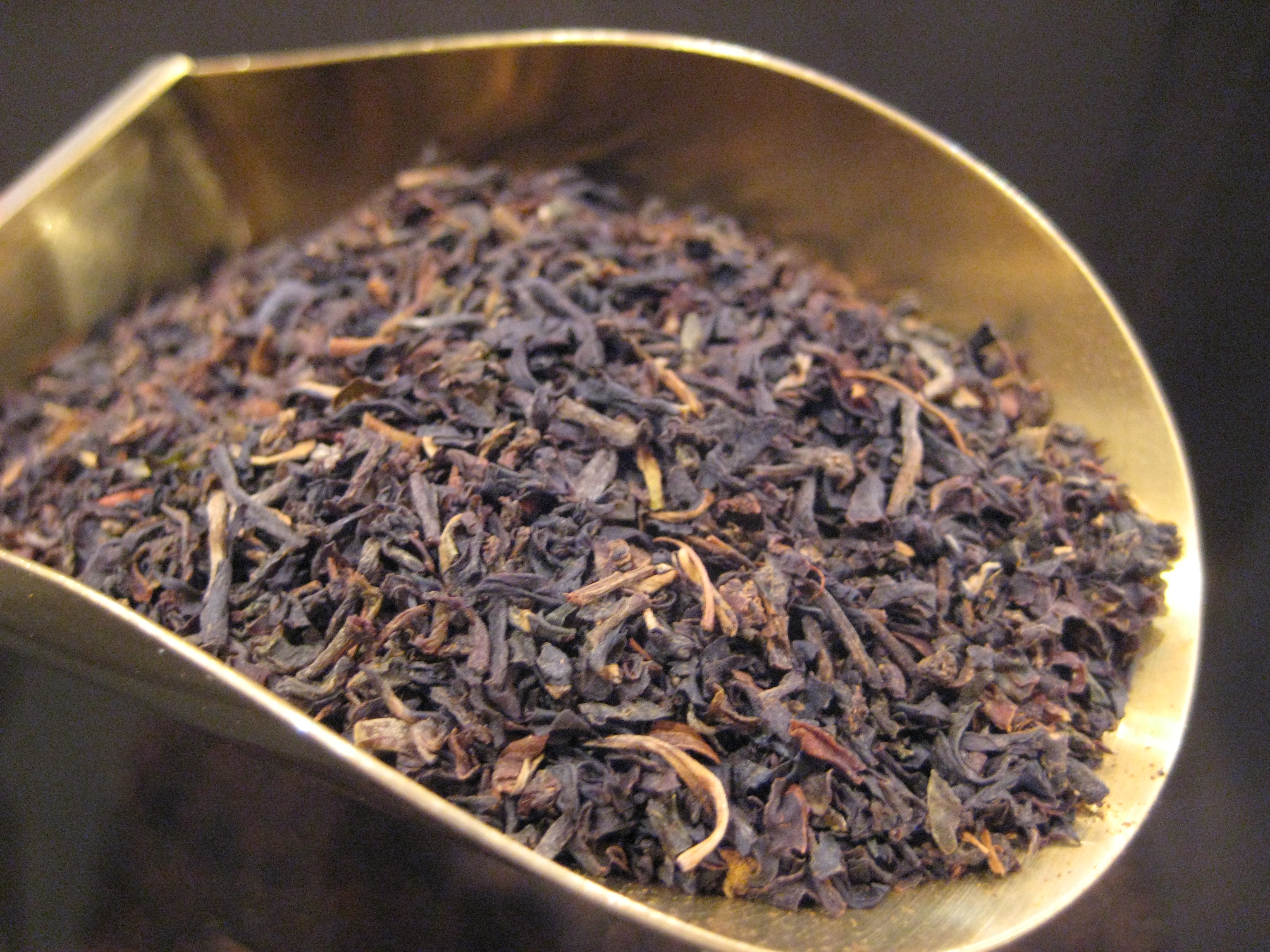 My favorite English black blend at TeaGschwendner. A blend of Assam, Java, and Ceylon teas.